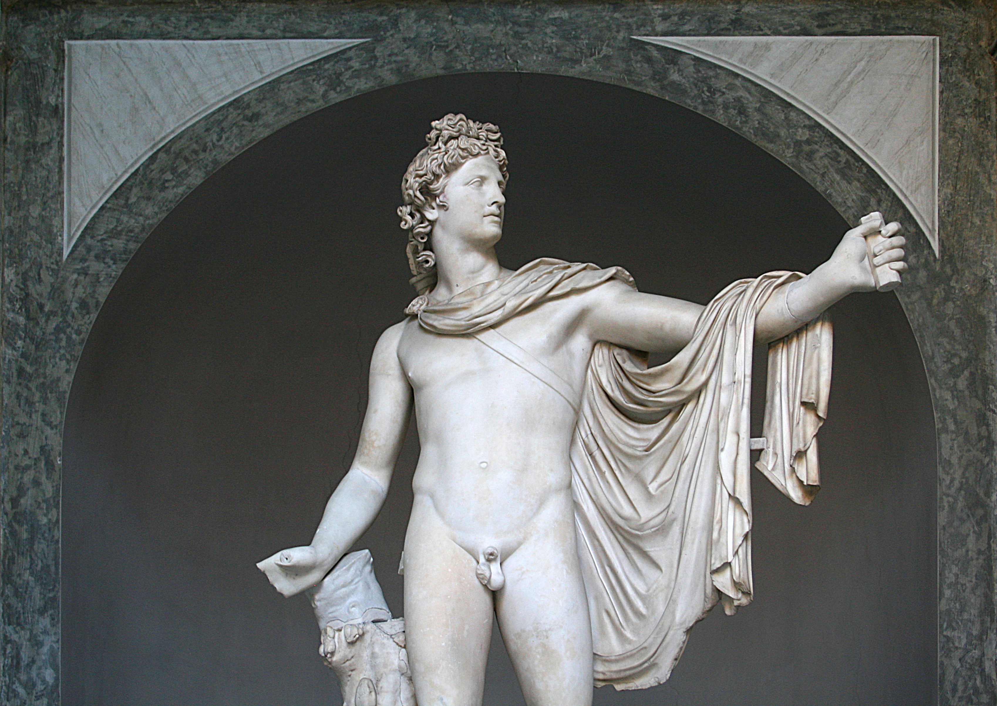 Roman copy after a Greek bronze original of 330–320 BC. attributed to Leochares. Found in the late 15th century.